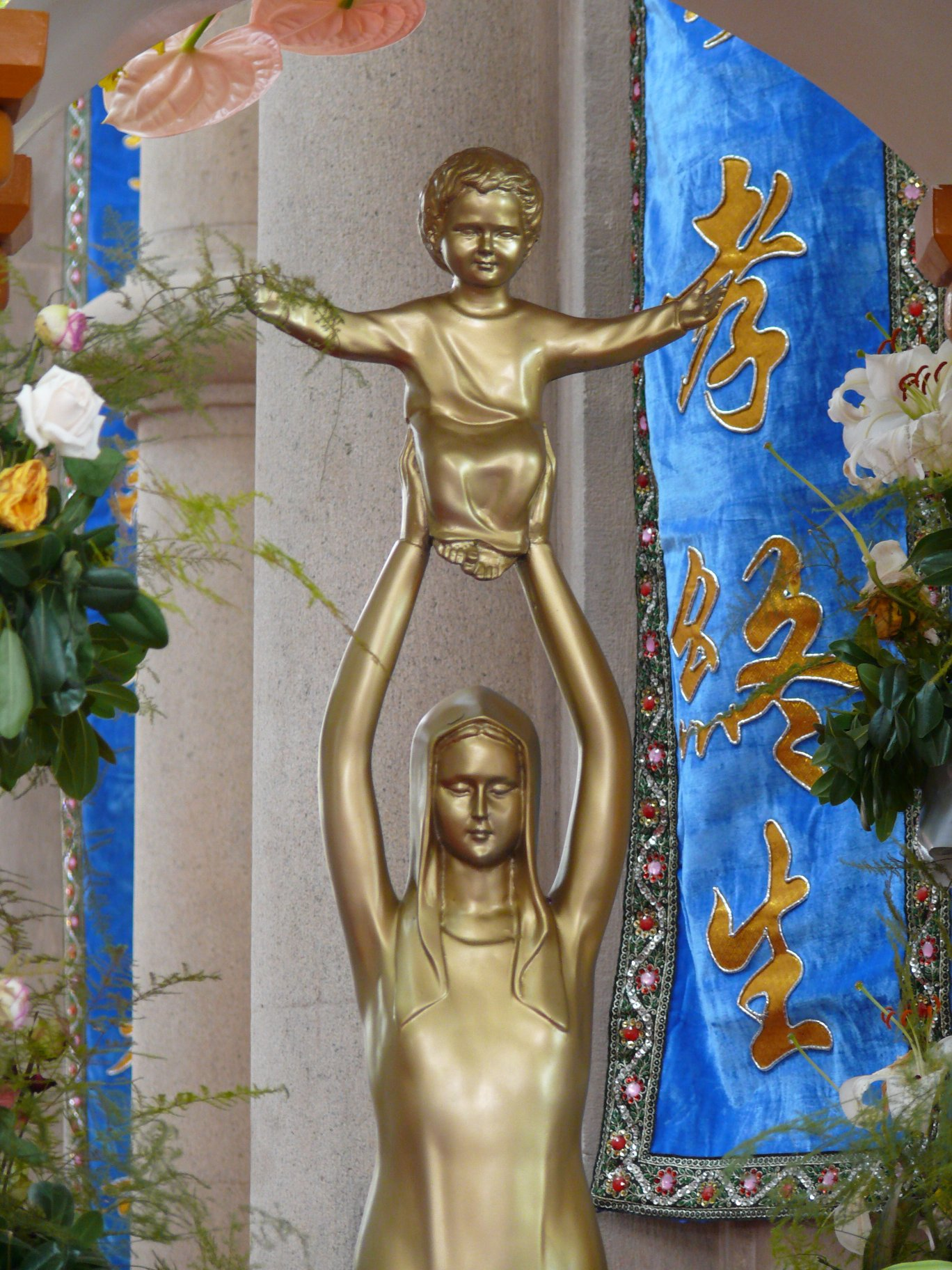 The basilica of Our Lady of She Shan, in Shanghai (China).